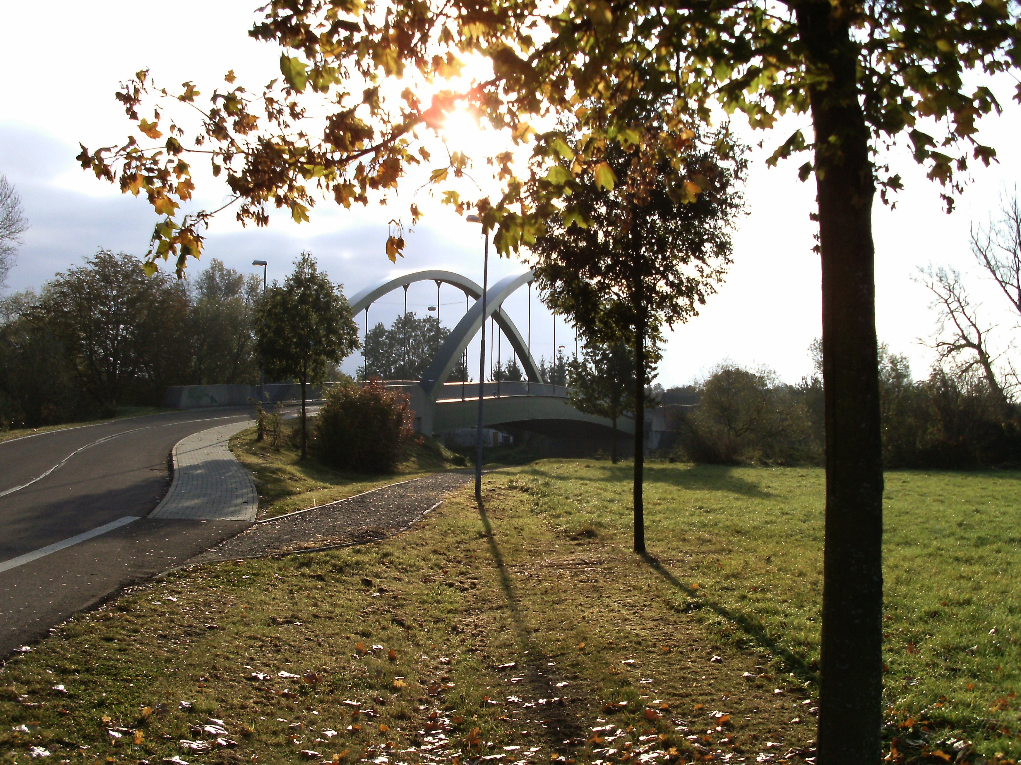 Bridge over the Saale river at Kleinkorbetha (Weissenfels, district of Saalekreis, Saxony-Anhalt)